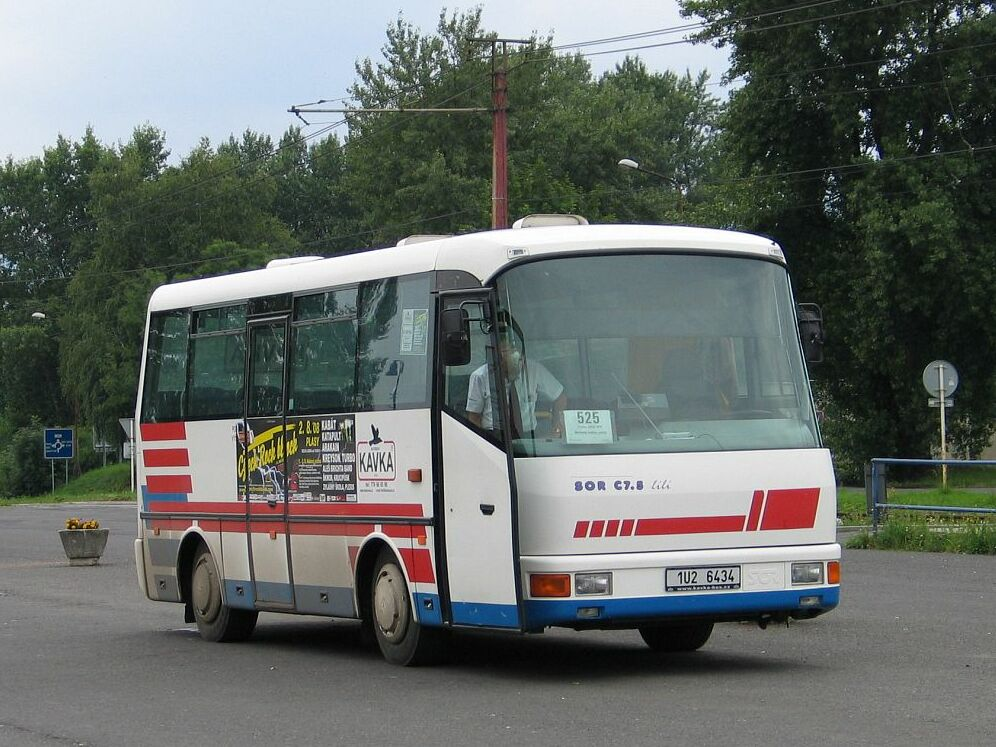 Bus SOR C 7,5 in Litvinov (CZ)